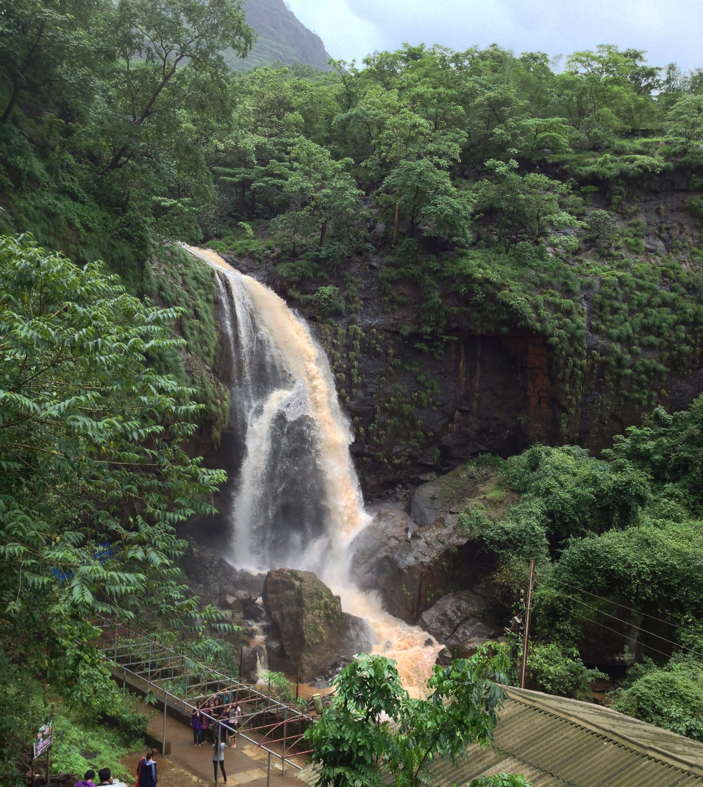 Shivtharghal Waterfall 3rd August, 2013